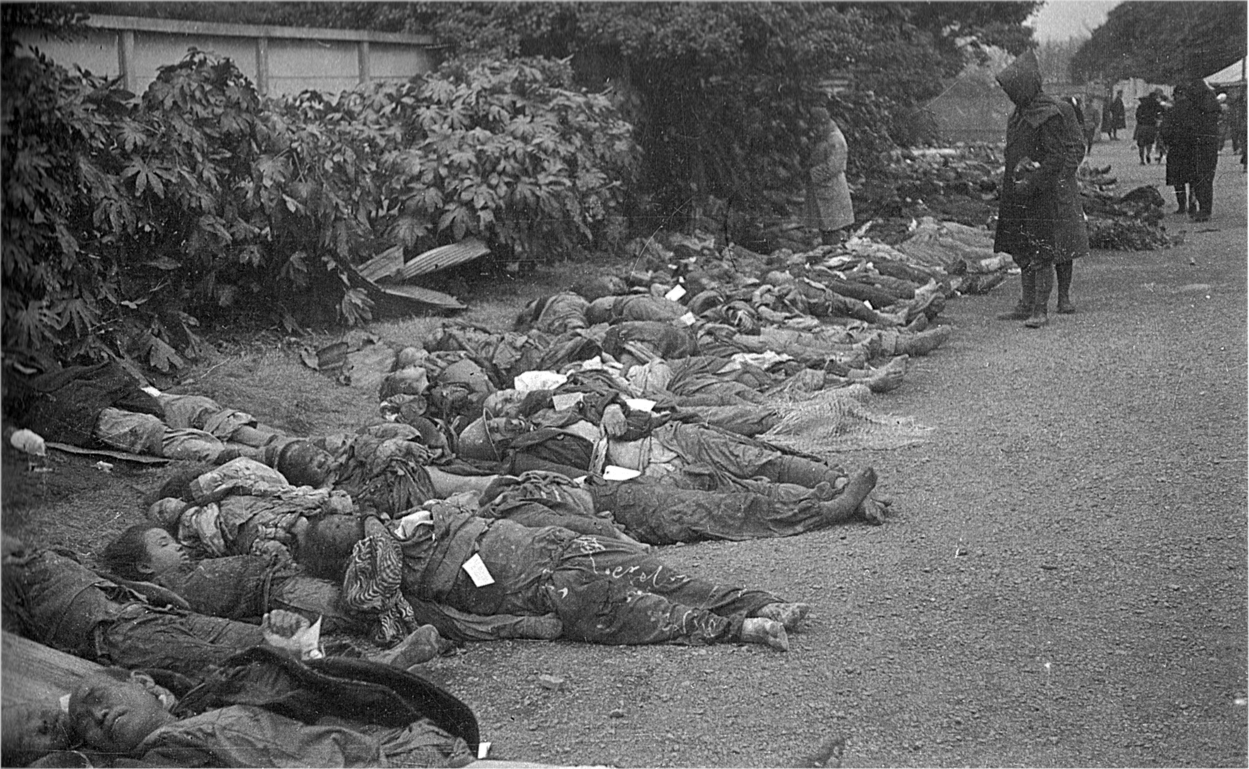 Dead Bodies brought from Shimoya and Asakusa to Ryō-Taishi-Waki in Ueno Park